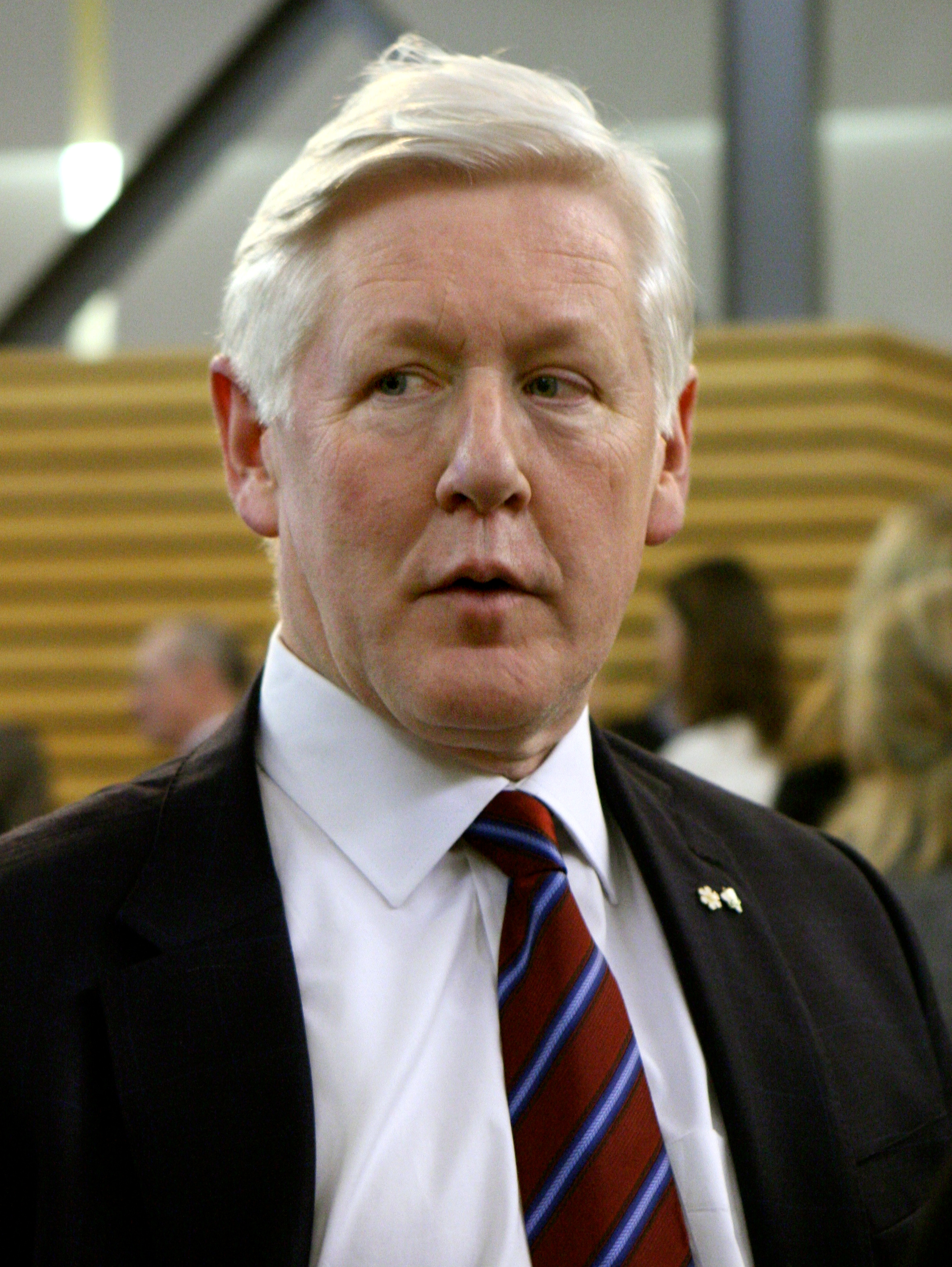 Picture of Bob Rae